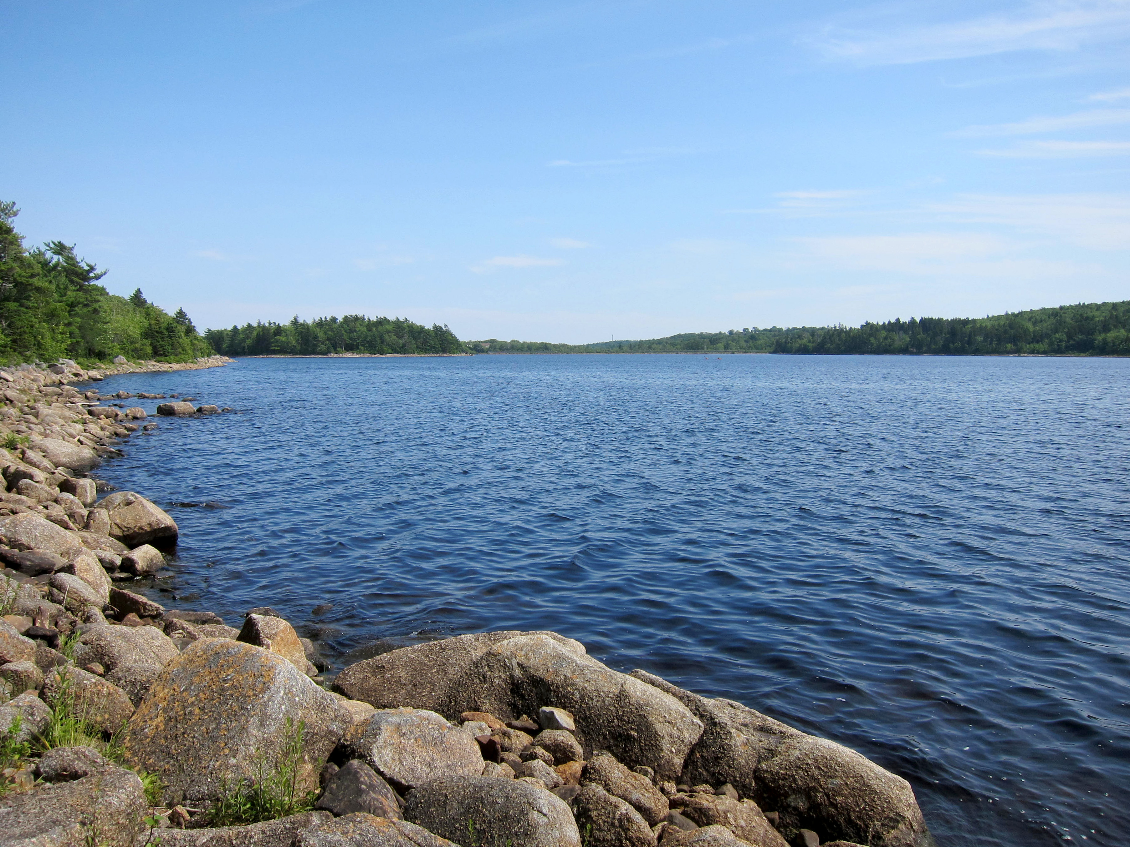 General view of Long Lake in Long Lake Provincial Park, Halifax, Nova Scotia, 21 July 2017.